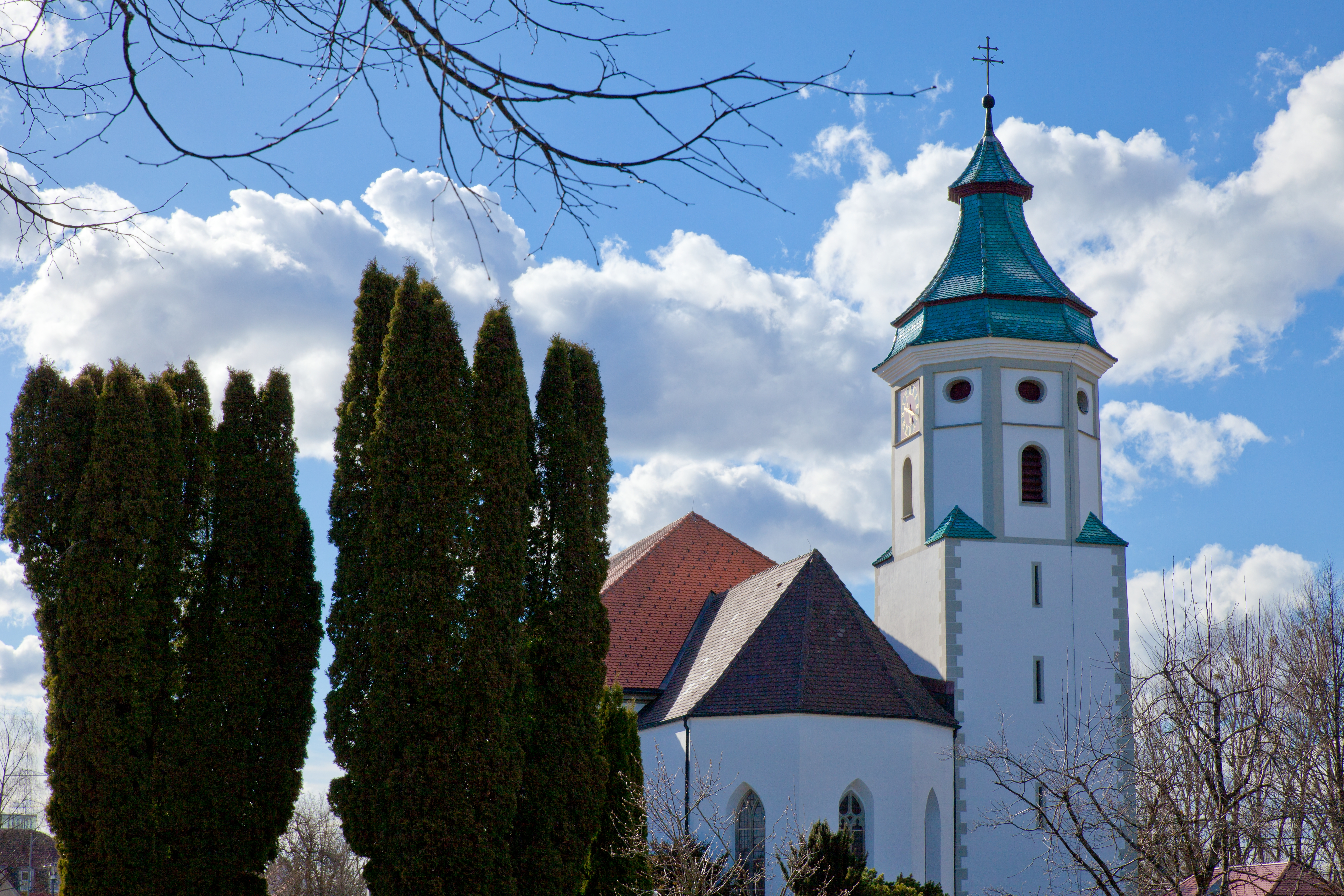 Church of Saint Gall and Saint Nicholas in Gruenkraut South View